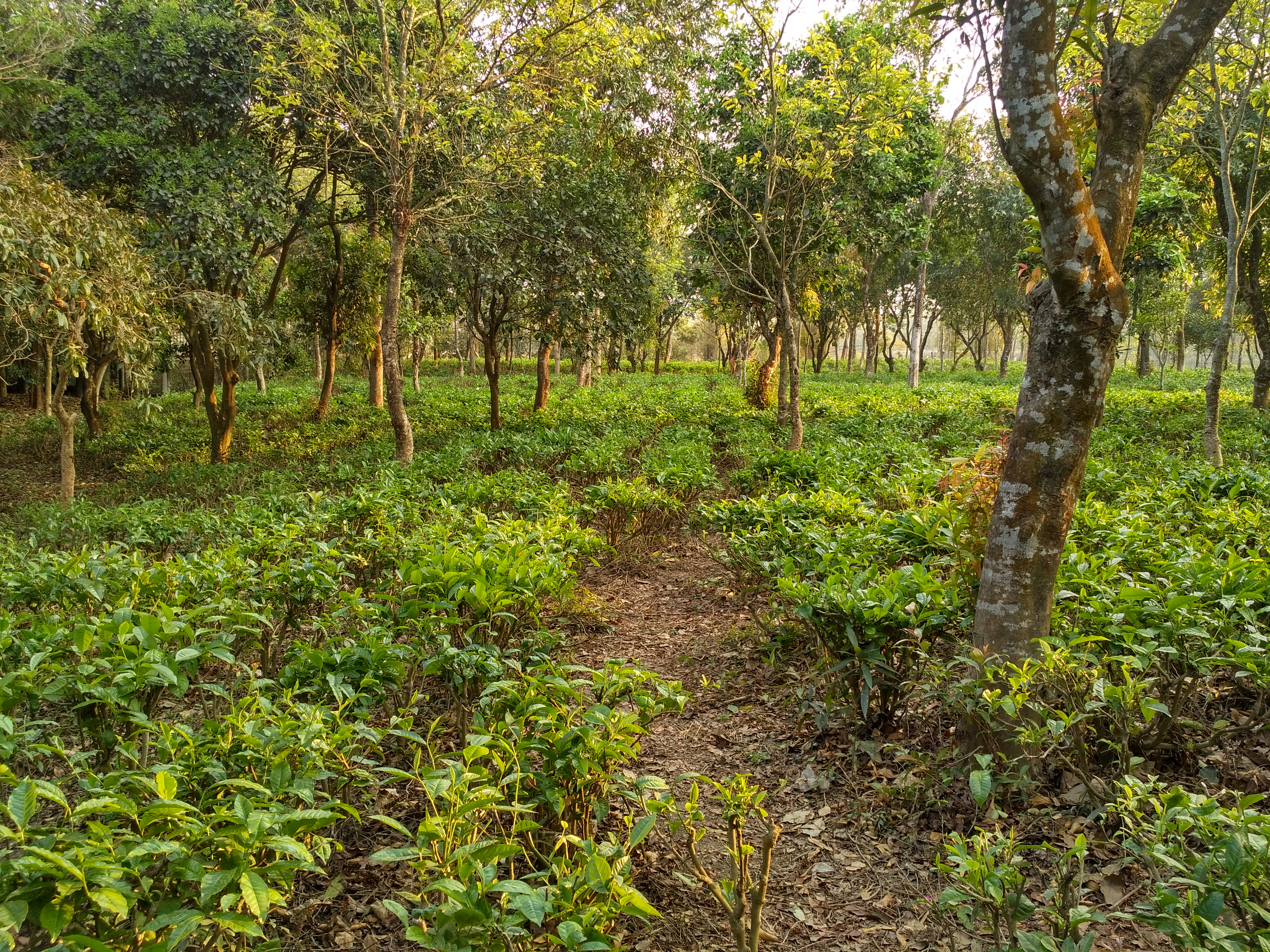 A tea garden at Tetulia Upazila, Panchagarh district, Bangladesh. (01.03.2019).